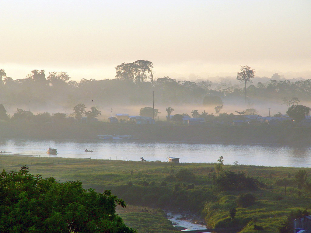 Morning haze over the Juruá River (3,280 km long) - I took the picture during the dry season and the water level is remarkably low.